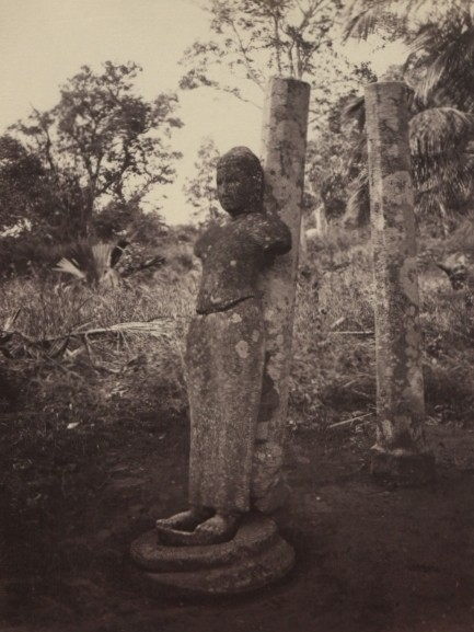 Mihintale. Stone statue of King Devanampiya Tissa, (B.C. 307), 6 feet 3 inches high, probably life size.